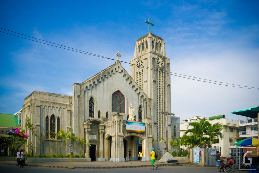 The iconic cathedral and the seat of the archdiocese of Cagayan de Oro.